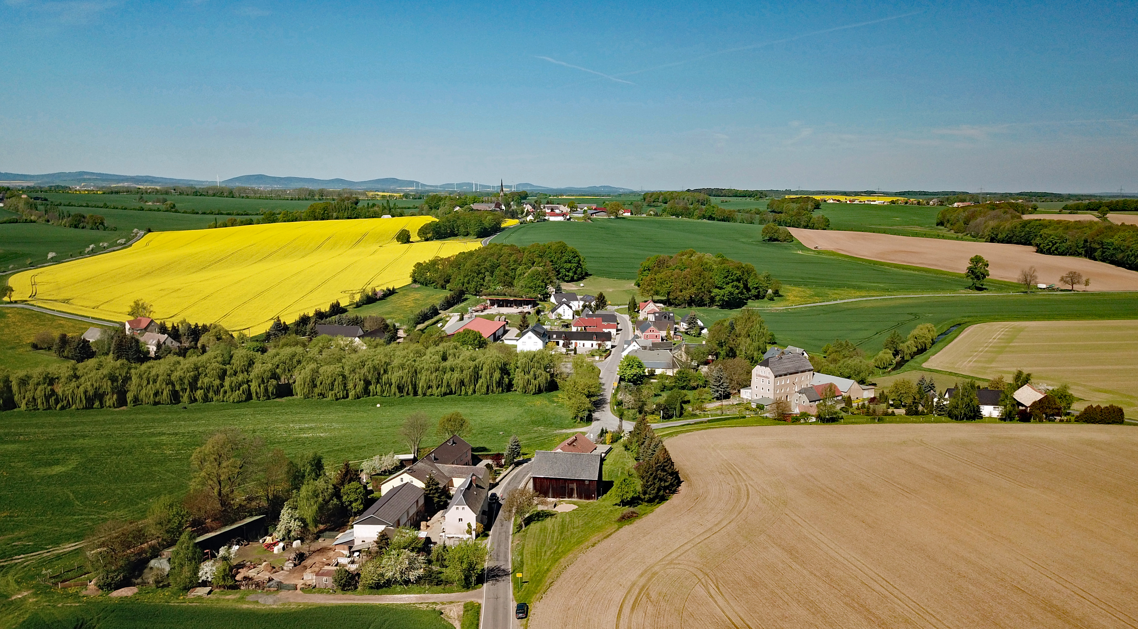 Dreikretscham (Göda, Saxony, Germany) Hornjoserbsce: Powětrowy wobraz Haslowa z wuchoda